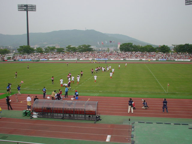 Photo of Japan playing Tonga at Honjo stadium in Kitakyushu city, Fukuoka prefecture, Japan on June 4, 2006 in the inaugural IRB Pacific 5 Nations 2006. The stadium was almost full with 8,100 spectators, but Japan lost 16-57. It was the first time in 22 years that the Japan national side had played in Kyushu. (Photo taken by uploader, Ian Ruxton (Historian))